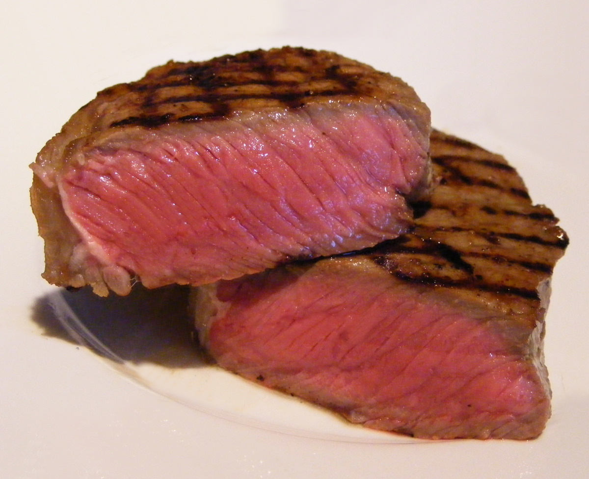 I smoke it first for about 7 minutes in a smoker. This will already "cook" the meat on low temperature. After that you just have to quickly grill it for about 30 seconds each side to make it my perfect steak.